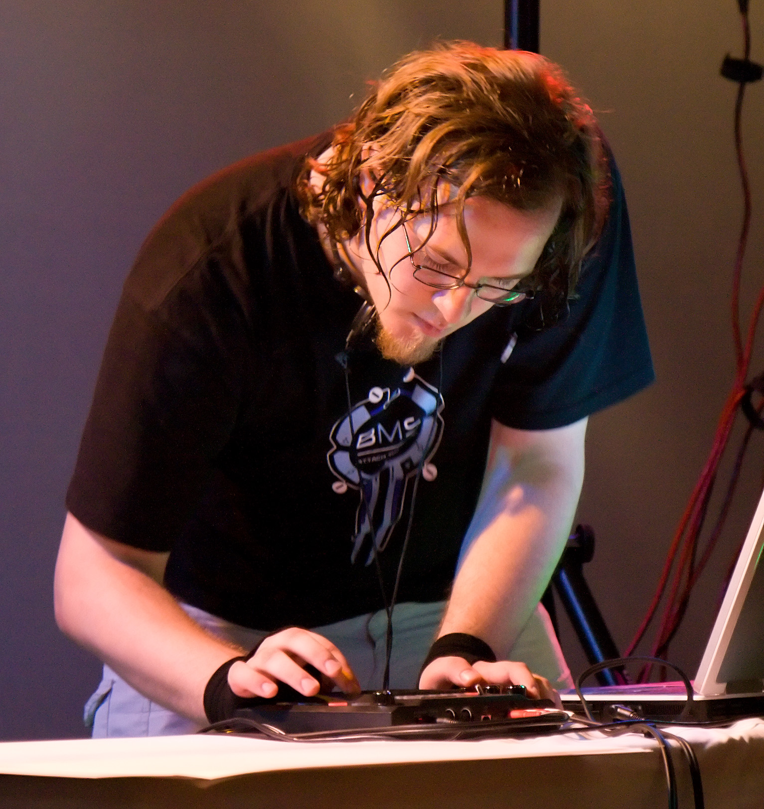 DM Ashura performing at San Japan 1.5